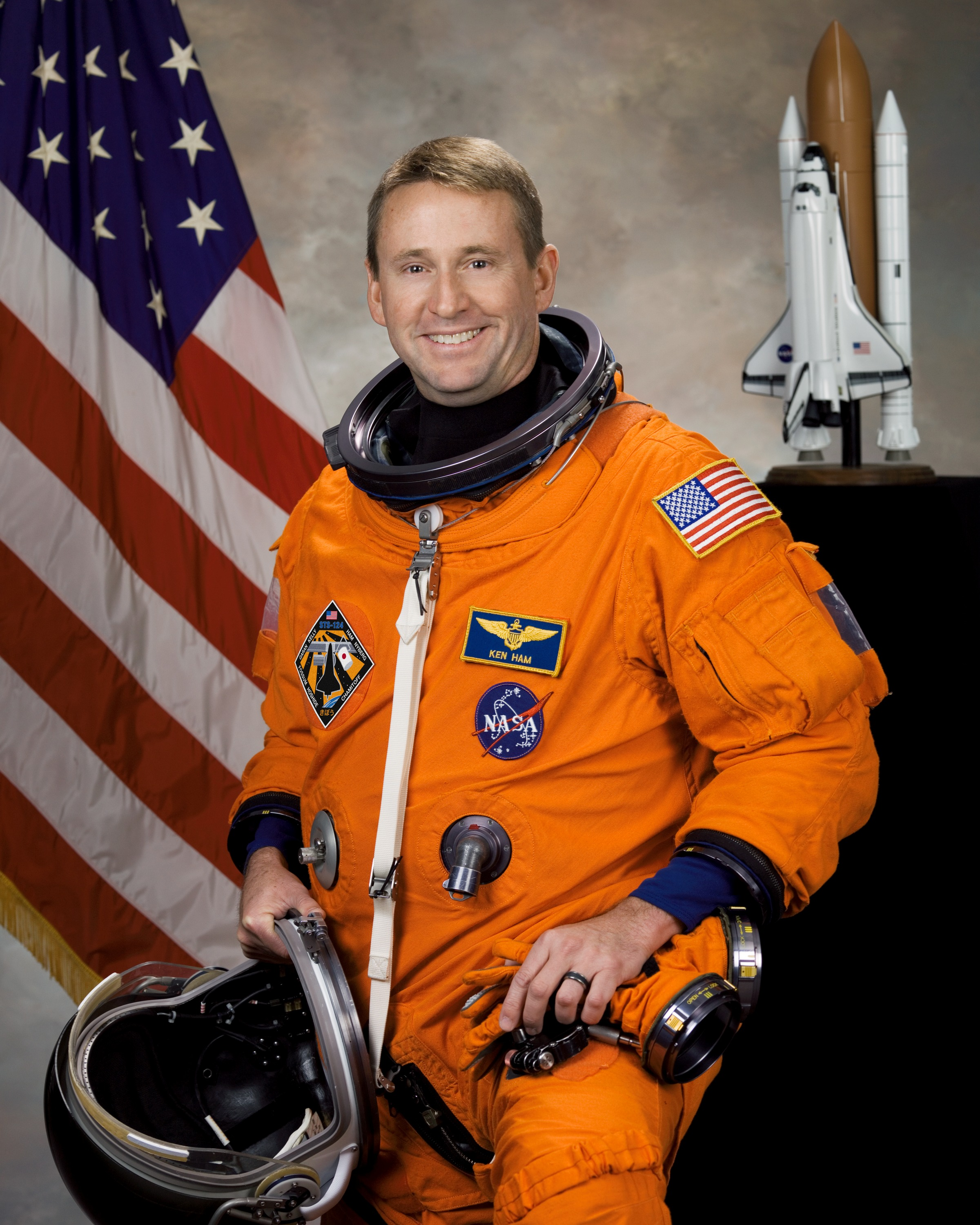 Official portrait image of NASA astronaut Kenneth Ham, pilot of STS-124.